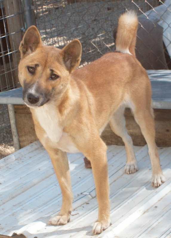 Beautiful 11 month old female Singing Dog